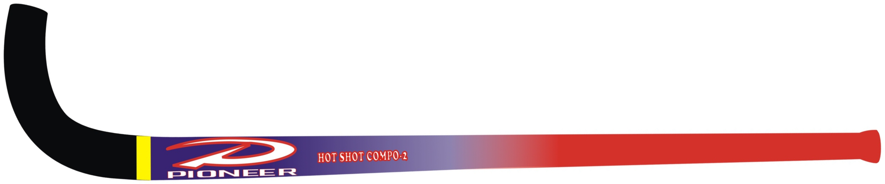 Original Picture rotated